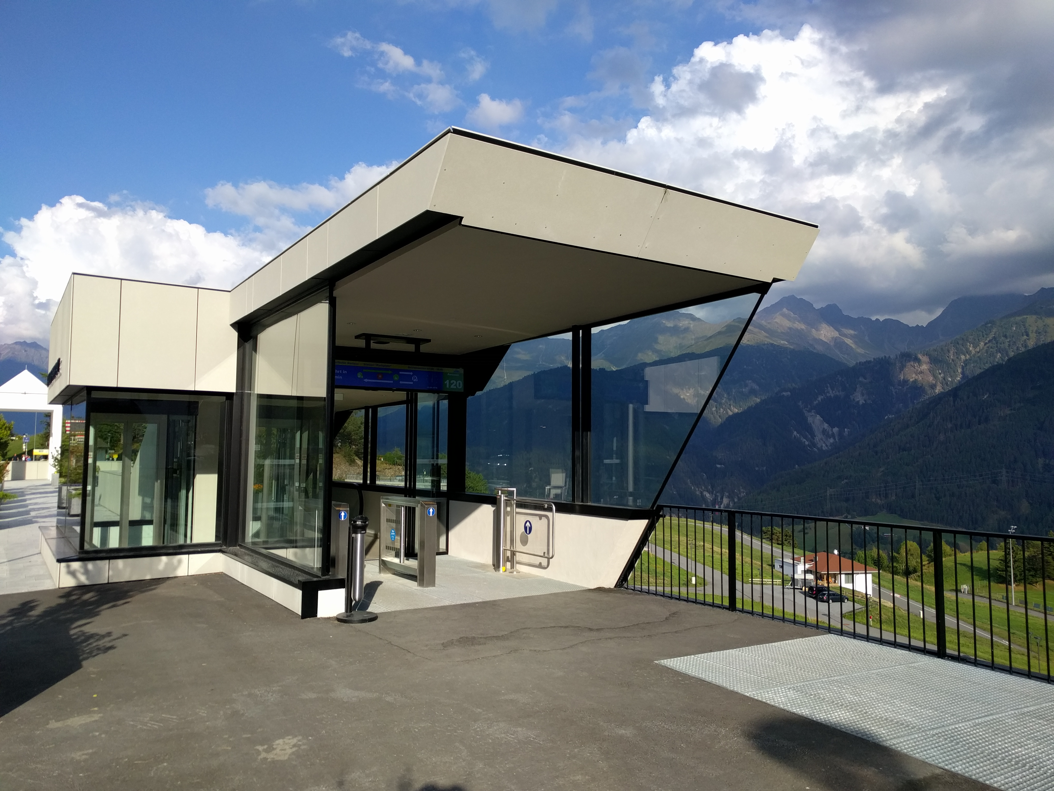 Metro Entrance in the mountains